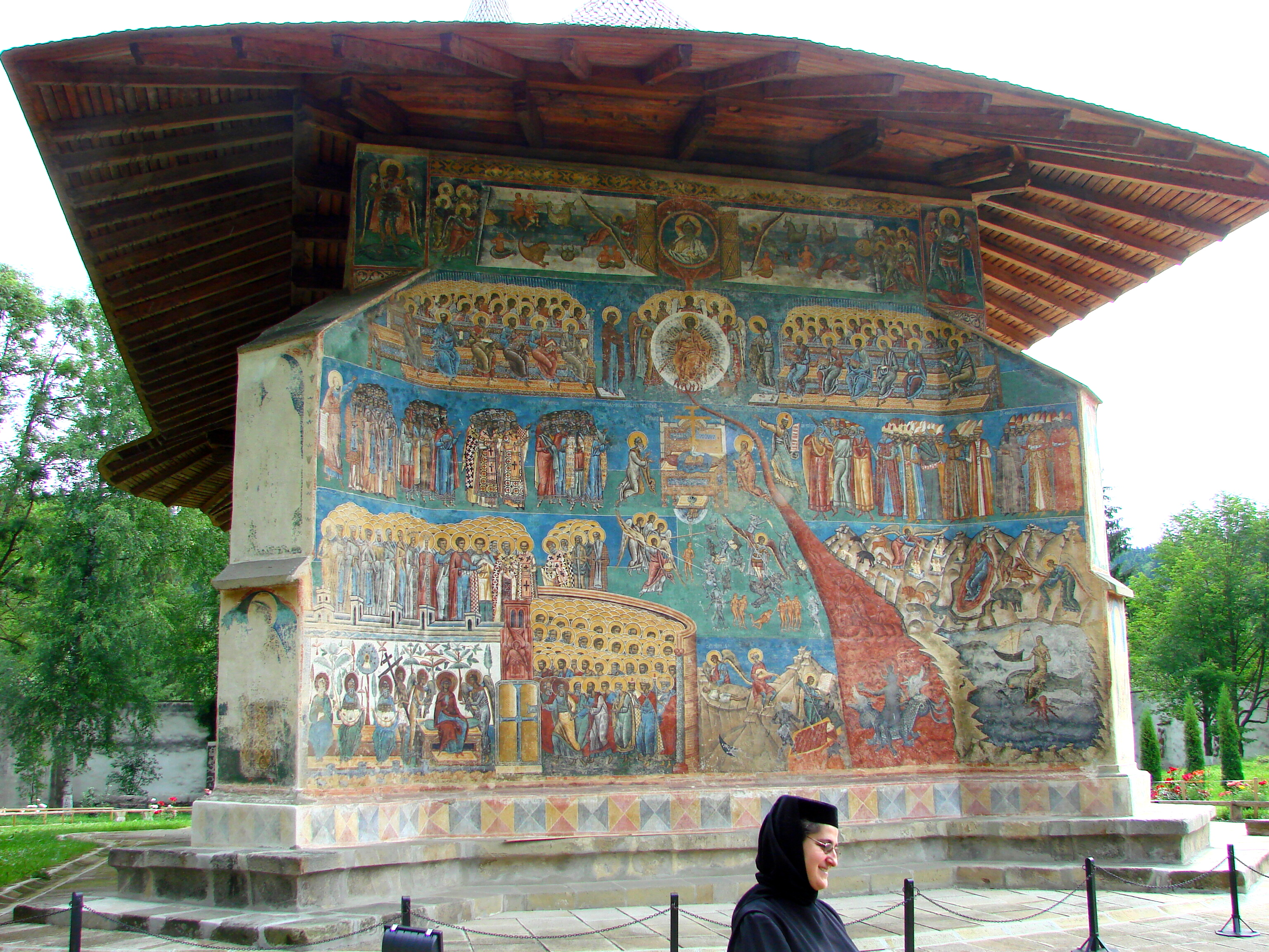 Voronet Monastery, Romania. June 2007.